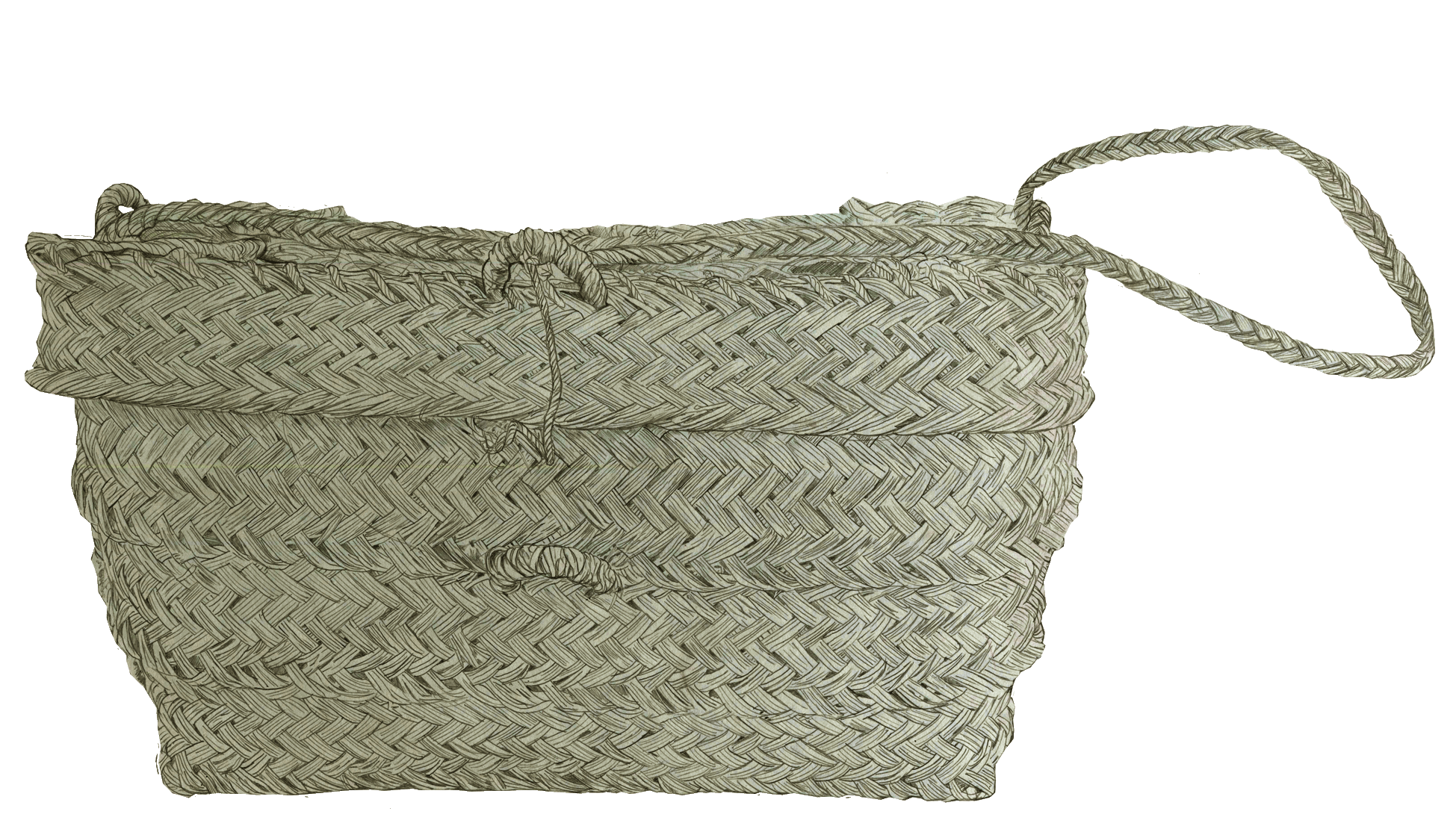 Capazo, cesto, contenedor hecho con fibra de esparto